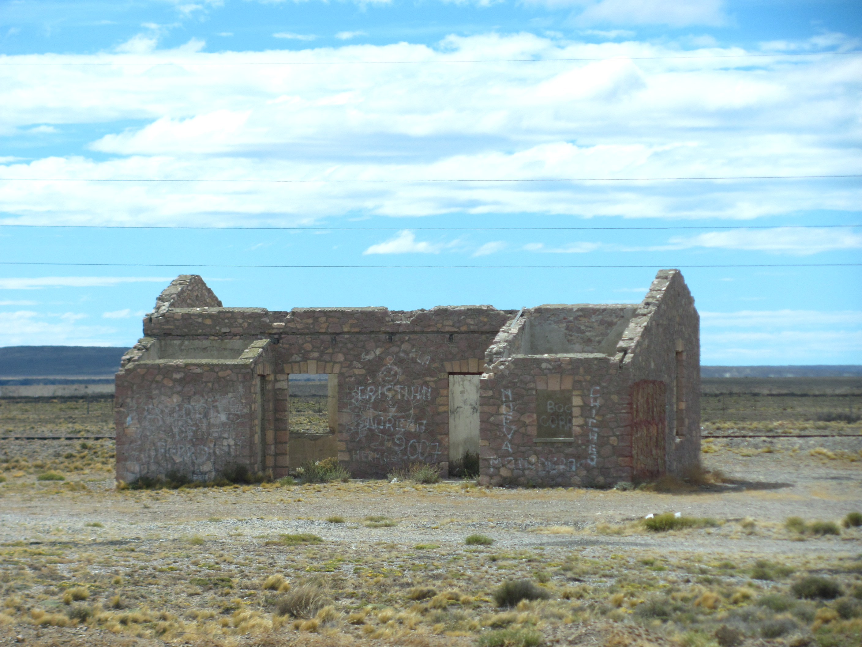 View of the Ramon Lista abandoned railroad station in Santa Cruz, Argentina